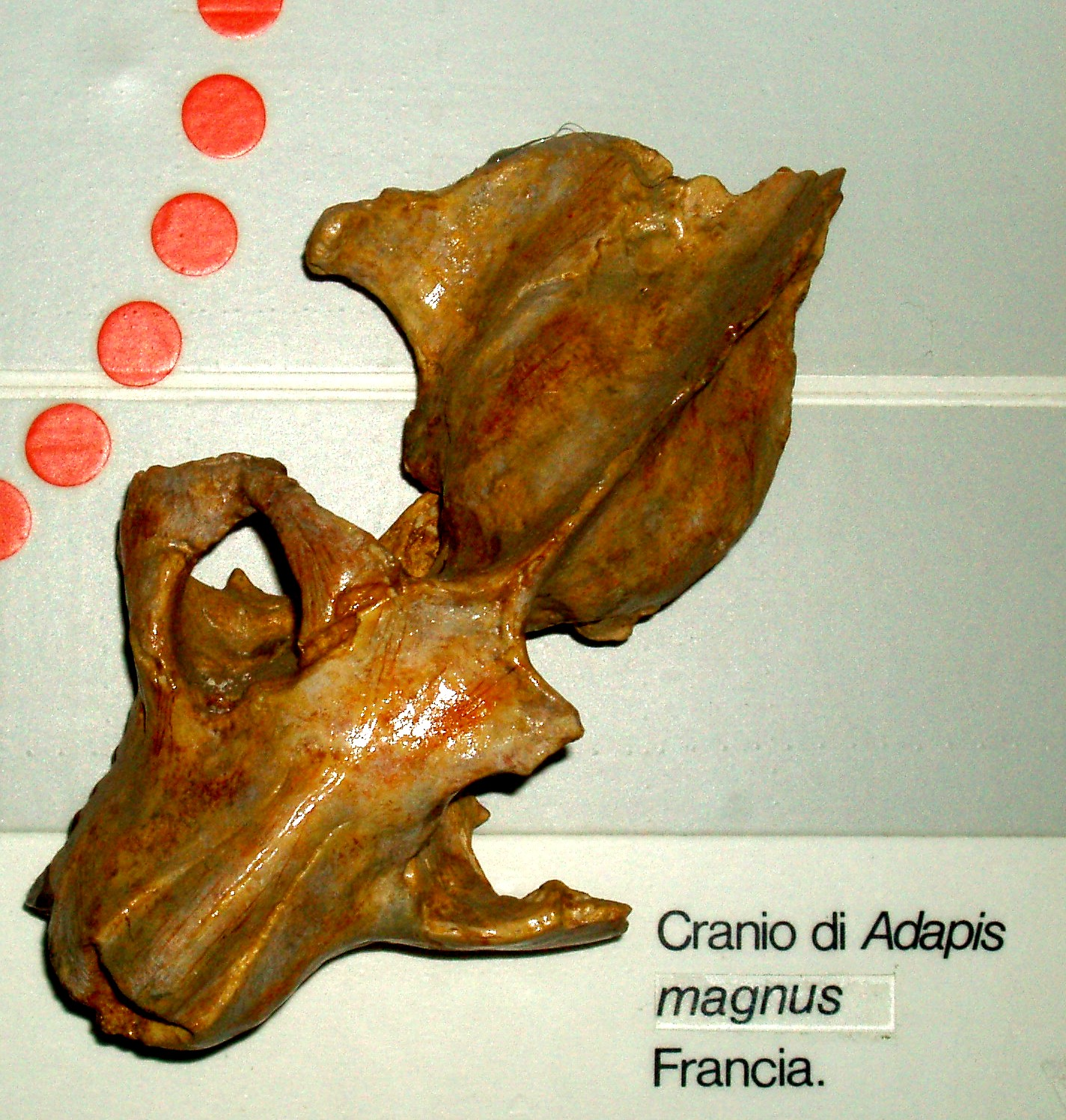 Fossil of Adapis magnus, an extinct primate